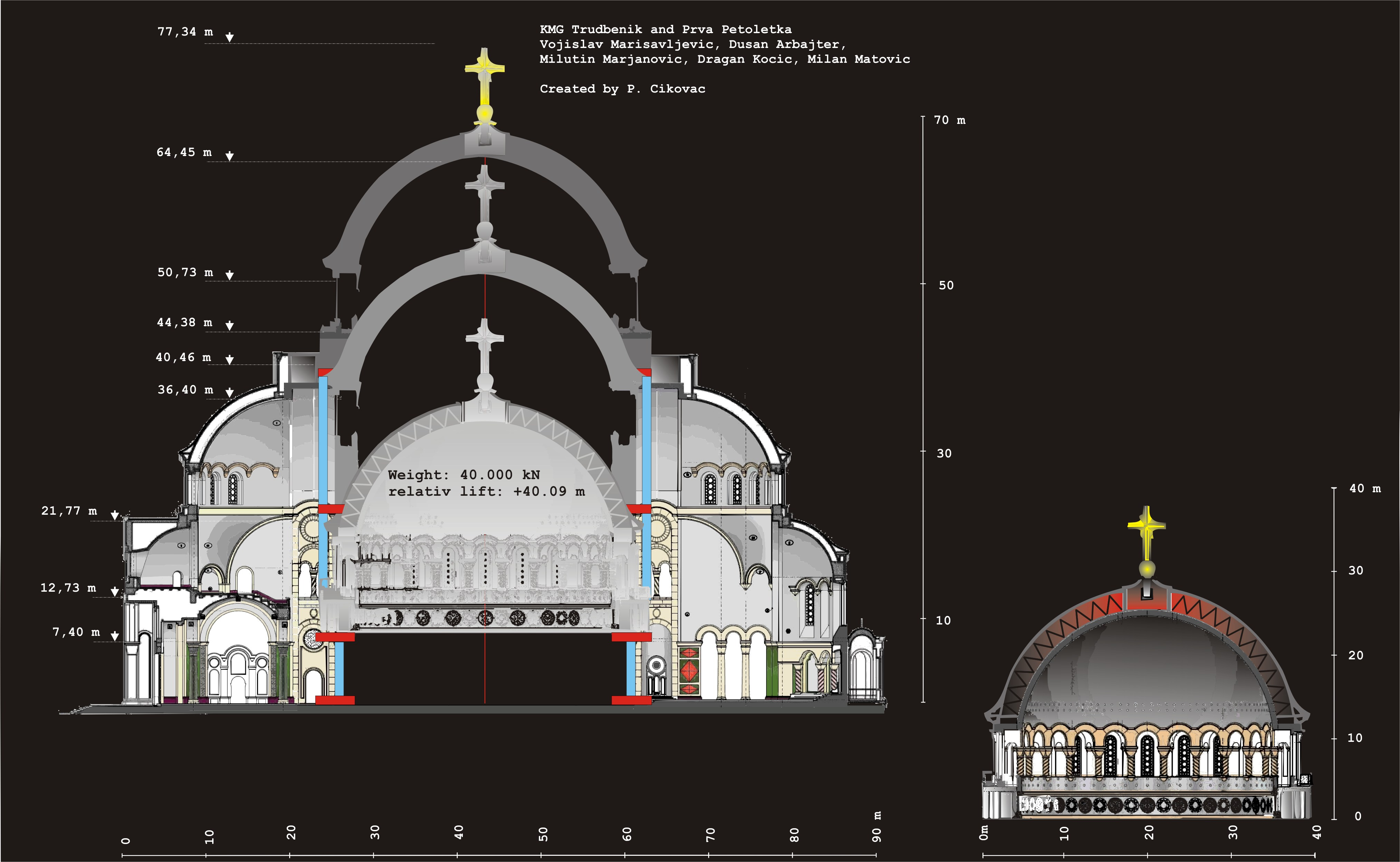 Sveti sava dizanje kupole grafika P.Cikovac